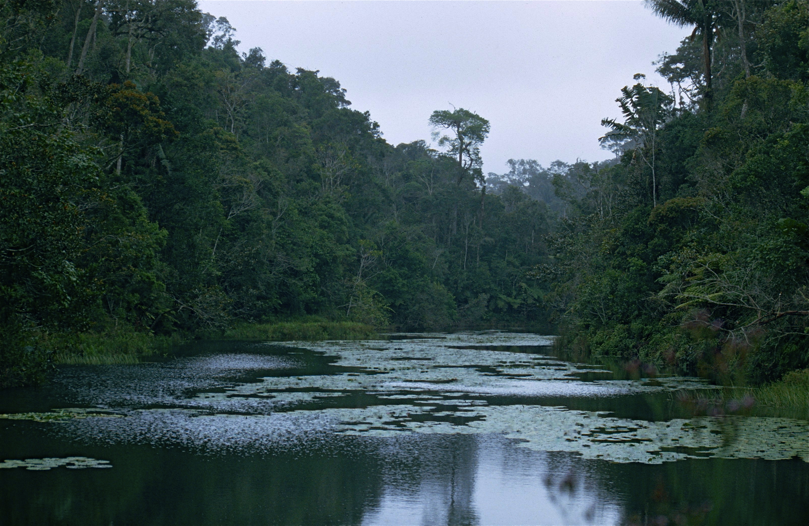 Analamazaotra Reserve, Perinet, MADAGASCAR Scanned Slide from 1998